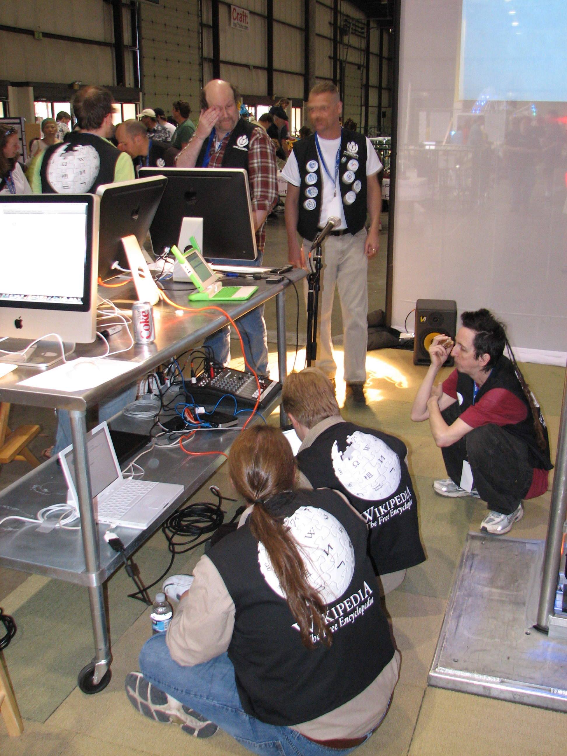 Various booth staffers, Wikimedia booth, Maker Faire 2008